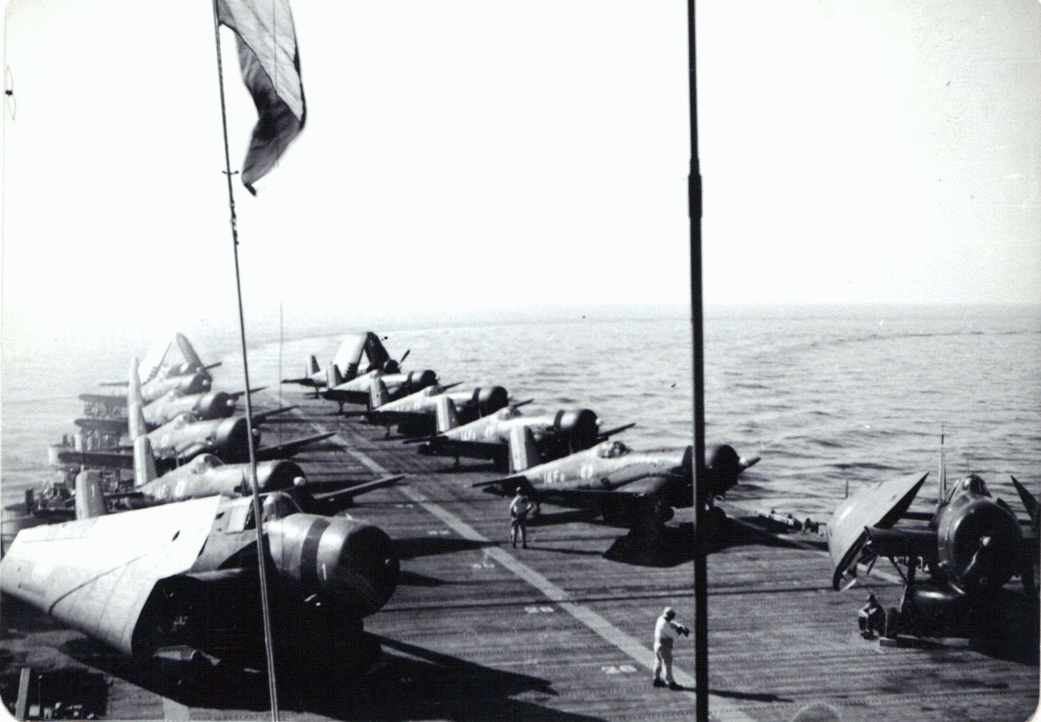 Grumman TBW-3W Avenger and Vought F4U-7 Corsair on the French aircraft carrier La Fayette (R96) in 1962.